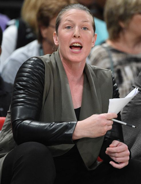 Katie coaching 2016